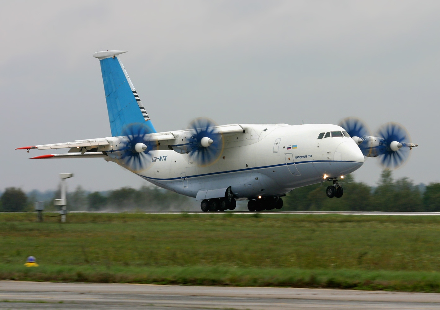 Aviasvit-XXI: wet touchdown, the final 'rehearsal' is complete - waiting for the airshow to begin.